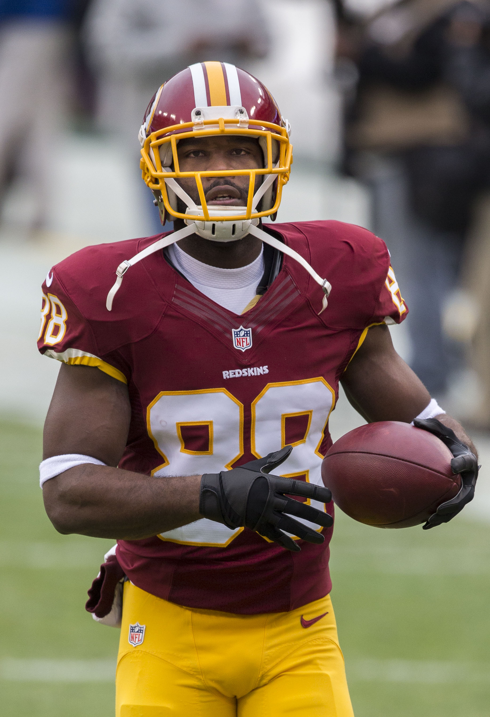 Buccaneers at Redskins 11/16/14